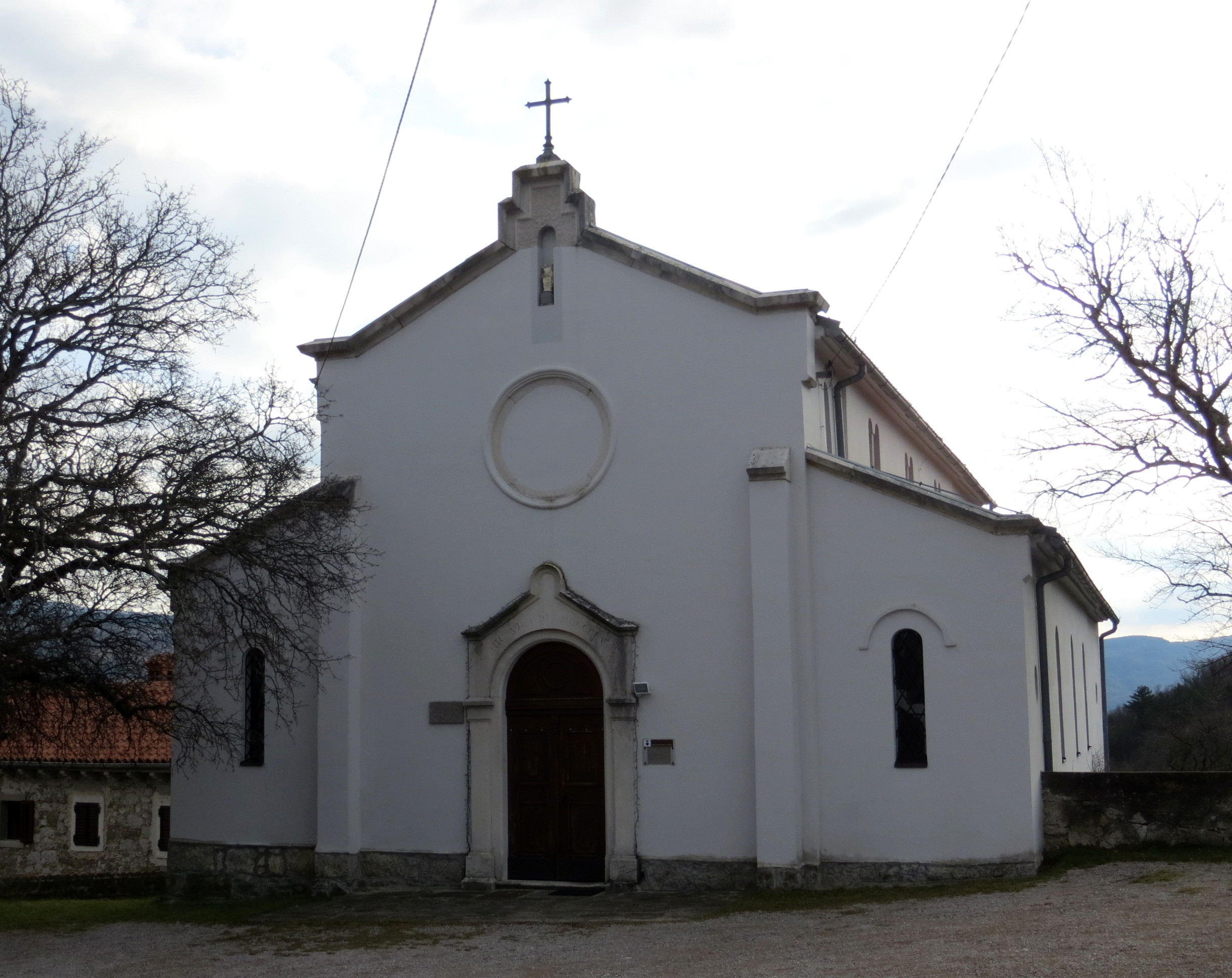 Saint Florian's Church in Kubed, Municipality of Koper, Slovenia